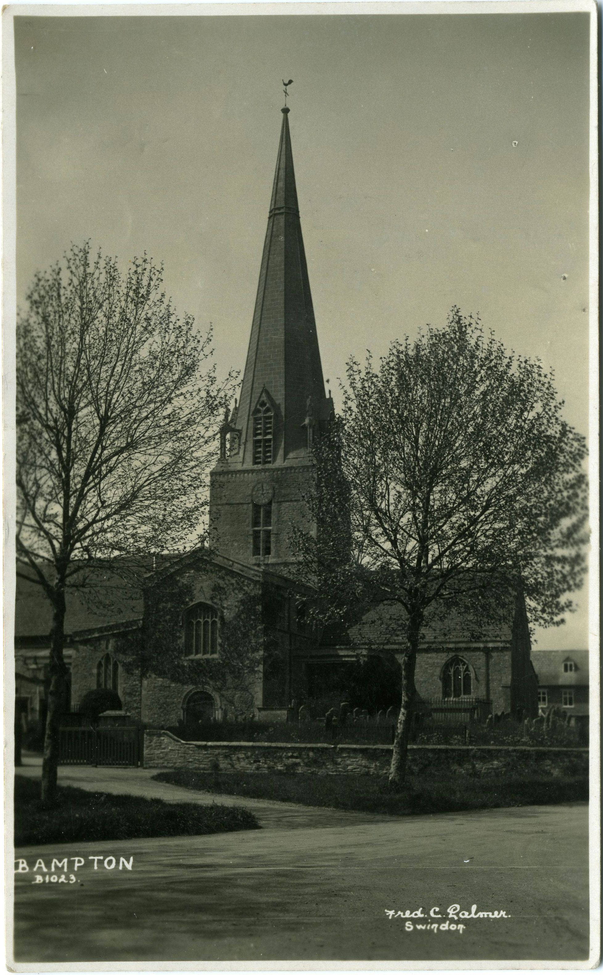 Postcard photo of Bampton, Oxfordshire, England. The postmark says 1931. The photographer was Fred C. Palmer of Tower Studio, Herne Bay, Kent ca. 1905-16, and of 6 Cromwell Street, Swindon ca. 1920-36. He is believed to have died 1936-39. Border The remaining border of this image is important for researchers of this photographer. Some photographers trimmed their images more than others, and Palmer has a reputation for producing smaller postcards than other early 20th century UK photographers. He took his own photos, developed them in-house onto postcard-backed photographic paper and trimmed them himself. It is worth adding that during hand-developing the border is actively masked with equipment which both crops the picture and causes the white frame or border to appear on the paper. This frame is part of the design and is one of the reasons why the quality of Palmer's work is so interesting, and why there is an article and category for him on English Wiki. Researchers need to see exactly where the edge of the postcard is. Thank you for taking the time to read this.